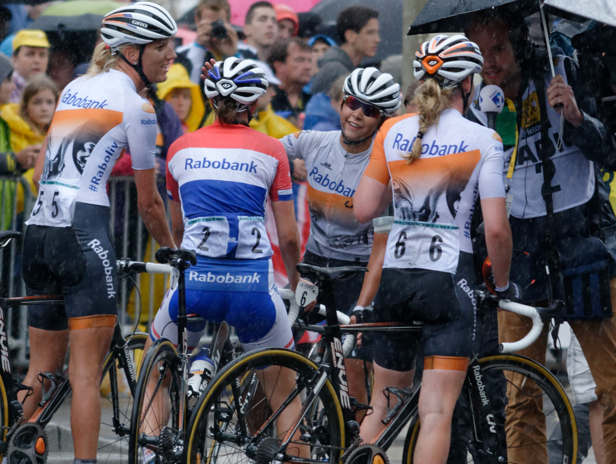 La Course by Le Tour de France 2015, Rabo-Liv: Moniek Tenniglo, Lucinda Brand, Anouska Koster, Anna van der Breggen